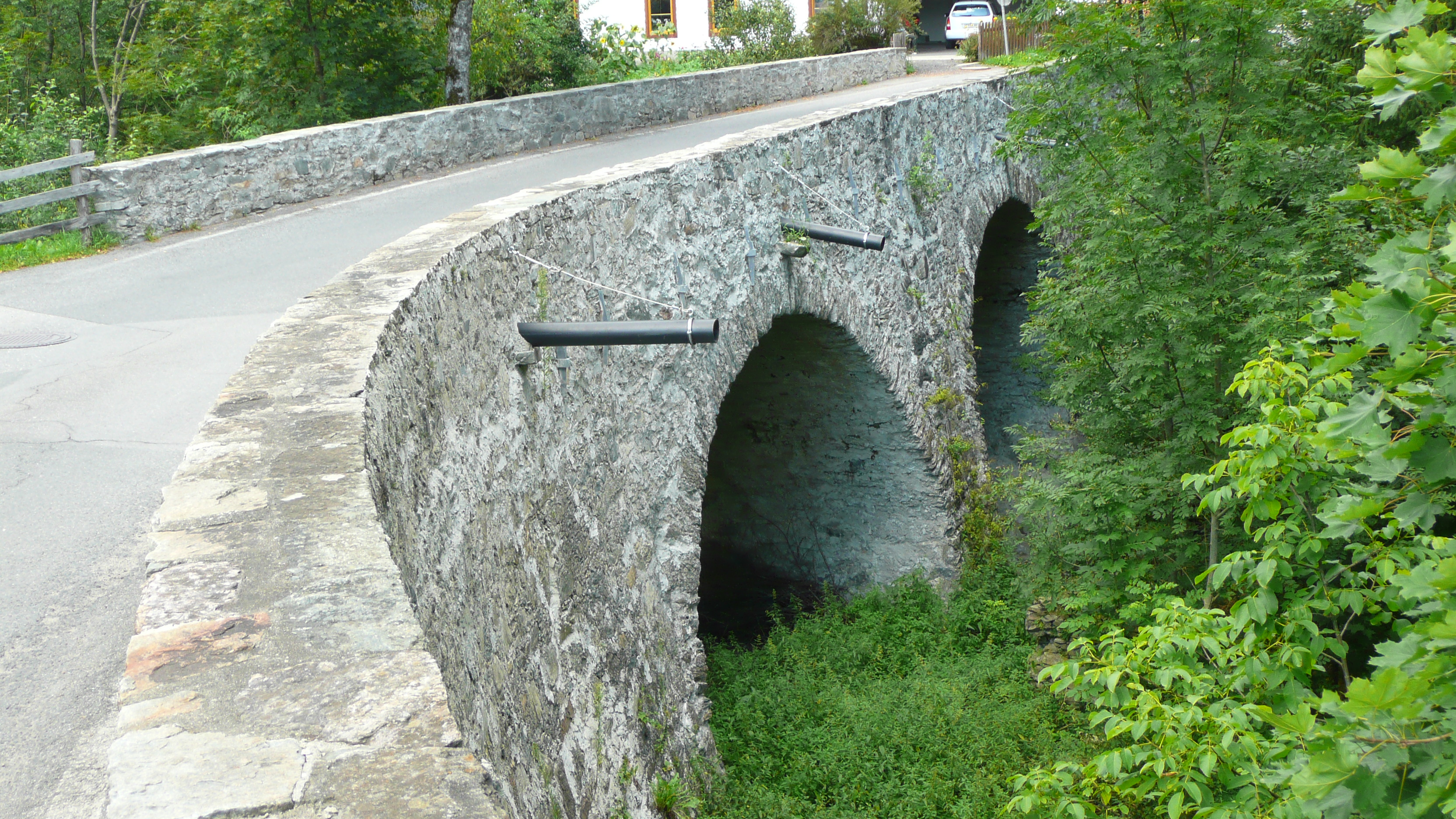 Bridge over Rachenbach, Austria